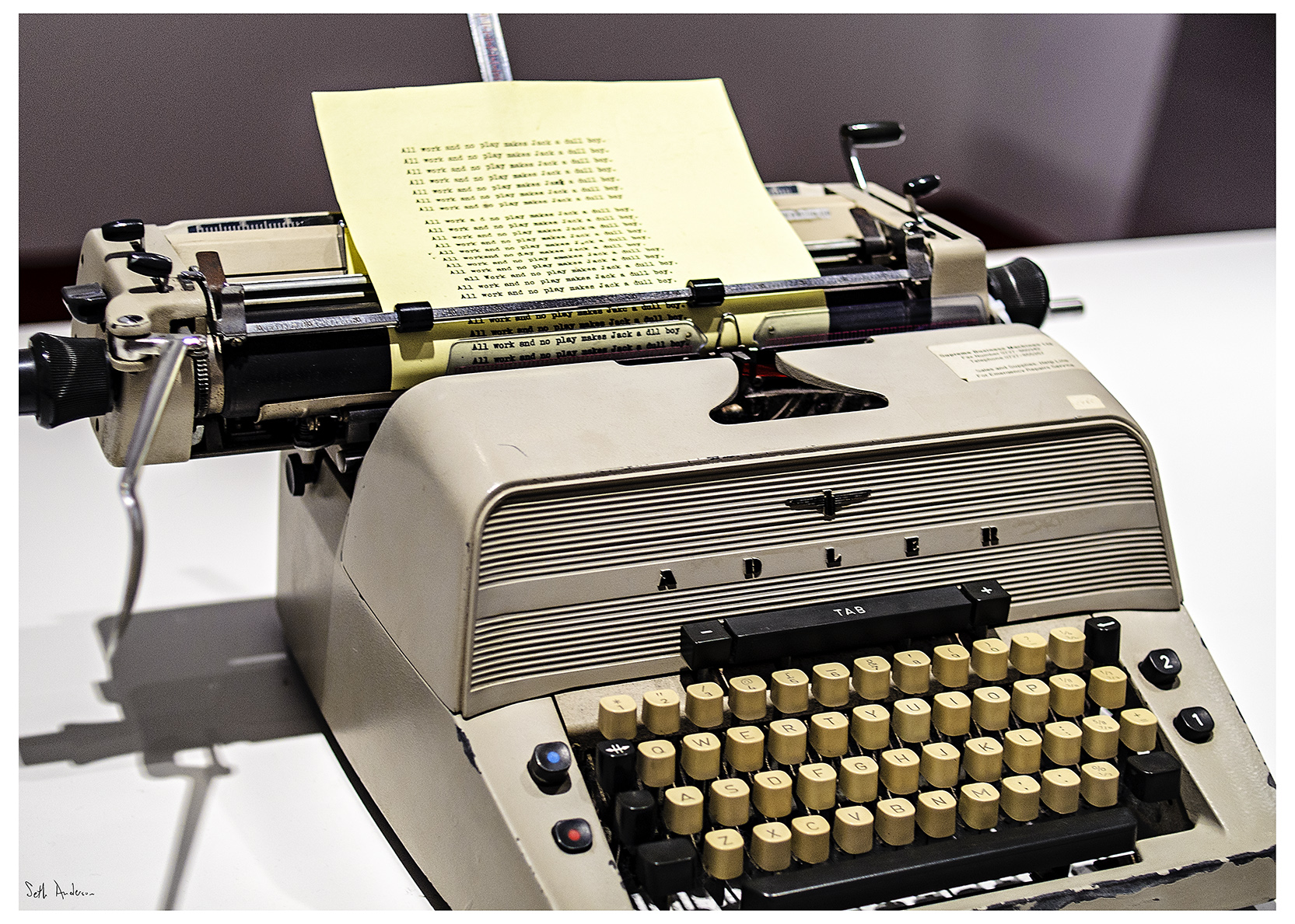 Typewriter from the film The Shining at the LACMA exhibit.